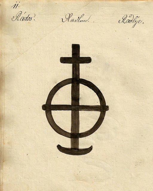 Cattle brand of Radeln/Roadeş/Rádos